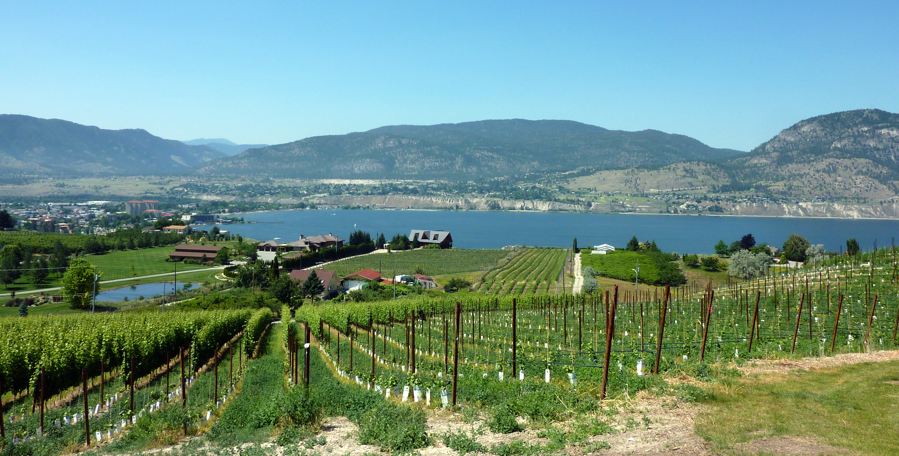 view from the Poplar Grove winery